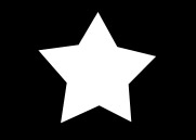 15 panzer grenadier division symbol